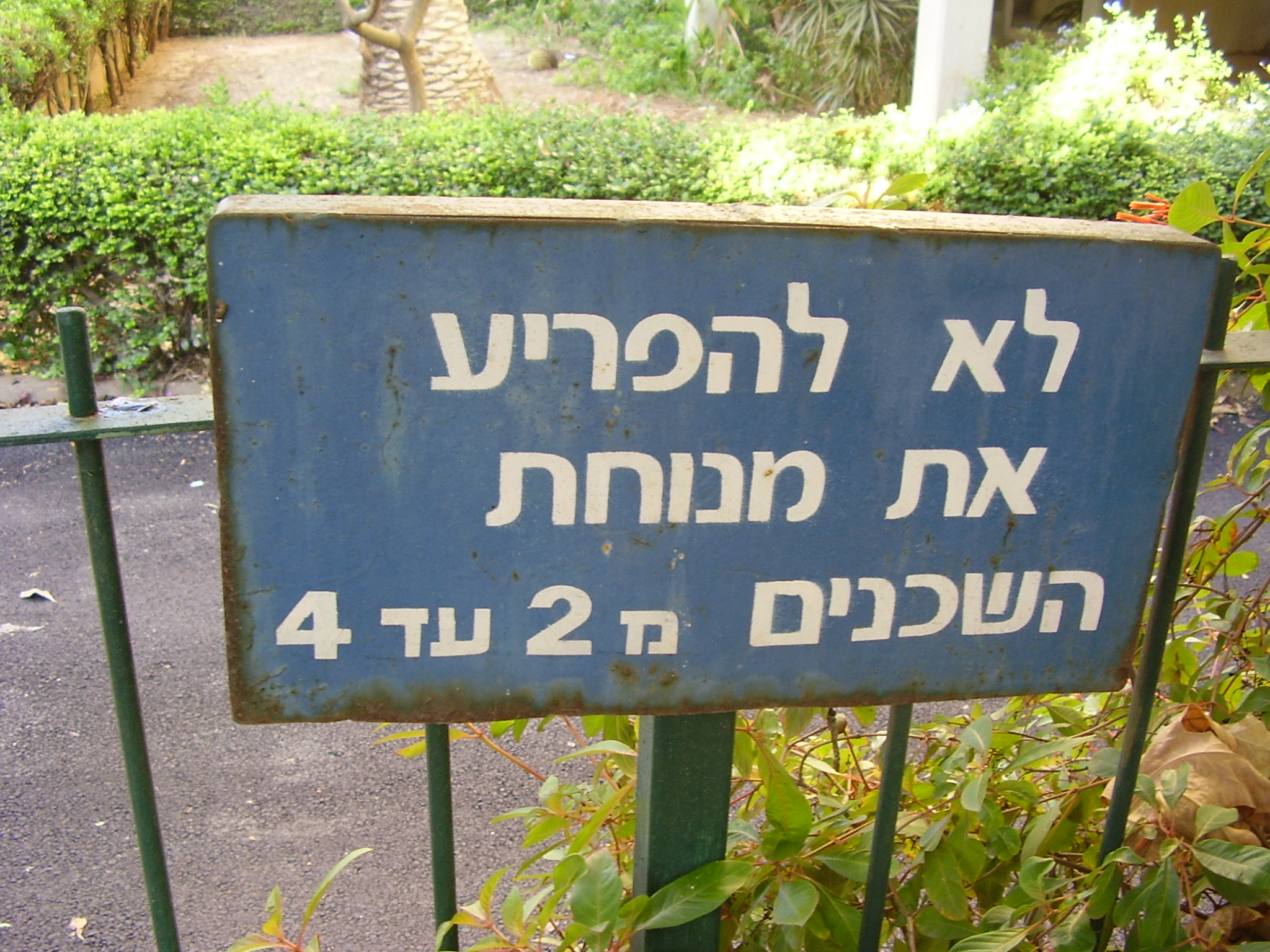 לא להפריע את מנוחת השכנים מ 2 עד 4 (Do not disturb the rest of the neighbors from 2 to 4)